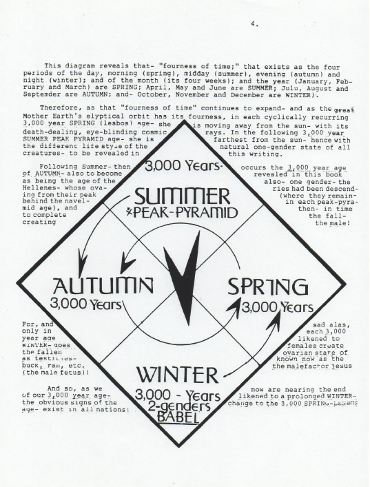 The chart and text together explicate Peavy's philosophy of the four seasons of the world, each of which last 3,000 years.